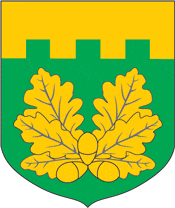 Coat of arms of Saue linn, Estonia